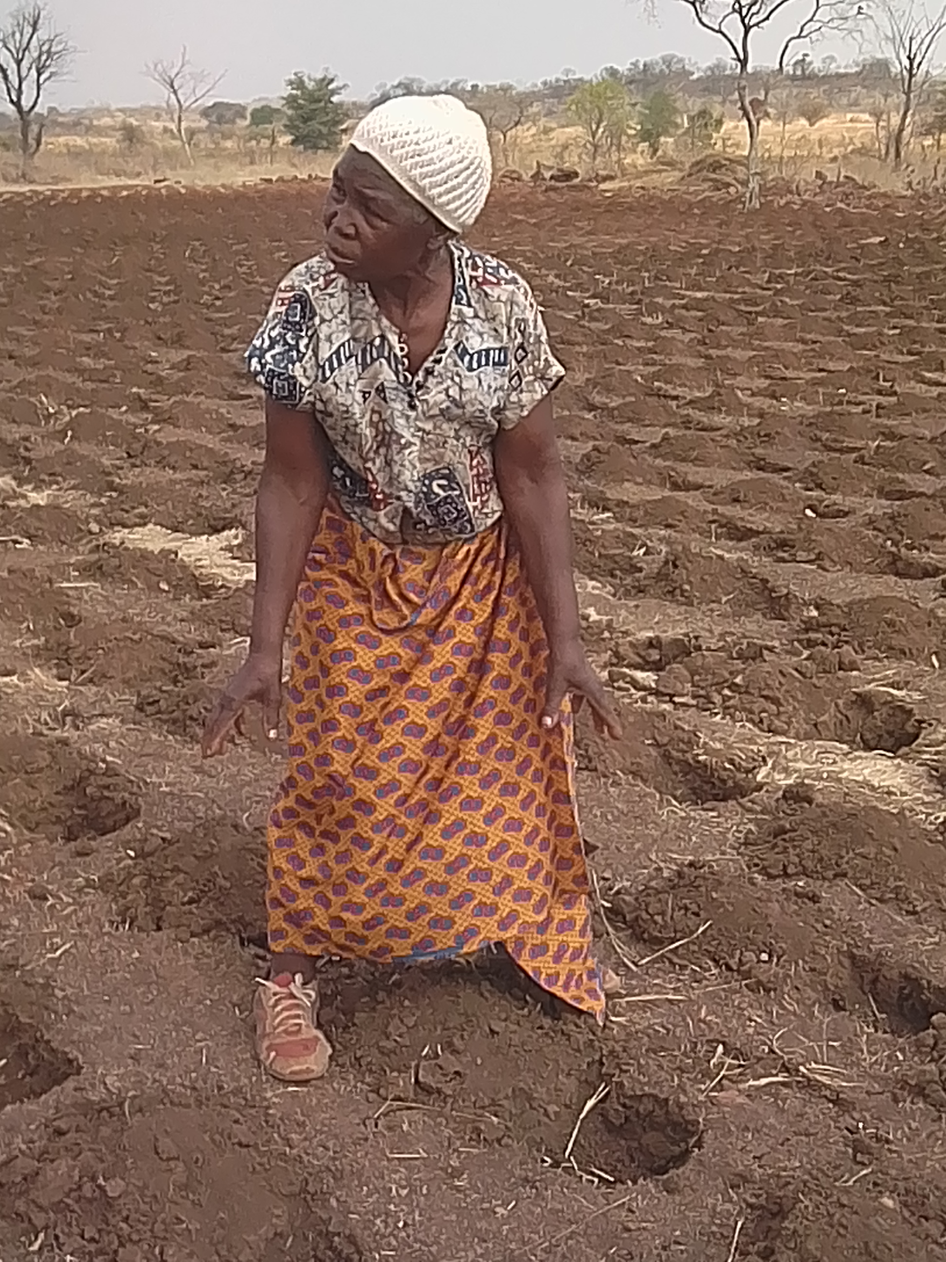 Small scale farmer in Kasiya area of LIvingstone, Zambia practicing conservation farming explaining the concept to others. She prepared the land herself, applied manure and is now waiting to plant soon as it rains. Despite her age she did all the work. This is an image of "African people at work" from Zambia